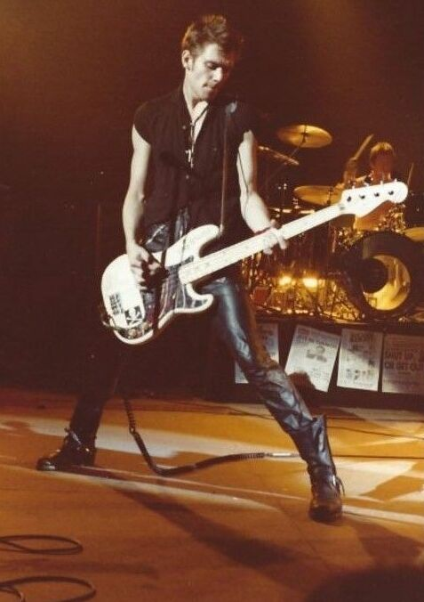 Paul Simonon of the Clash performs at the Palladium, September 20, 1979.